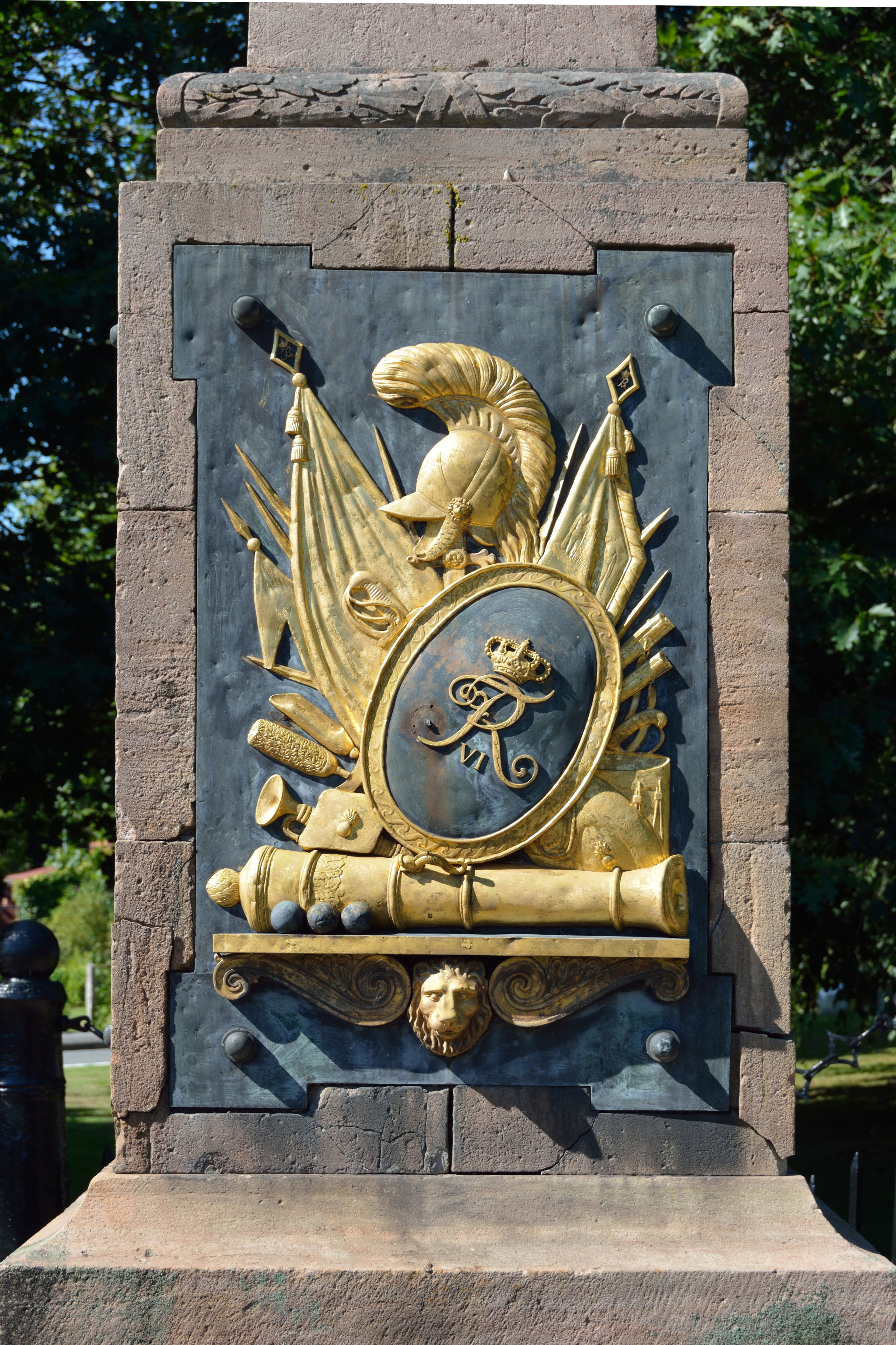 Monument to the battle in Sehestedt